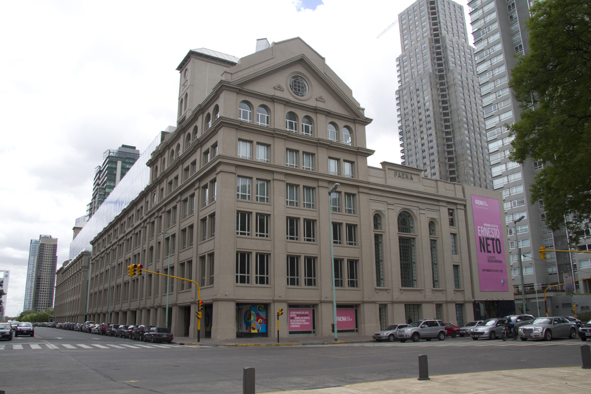 The Faena Arts Center, inaugurated in 2011 in the Puerto Madero ward of Buenos Aires. Originally built in 1902 as the El Porteño mills. Photo: Estrella Herrera